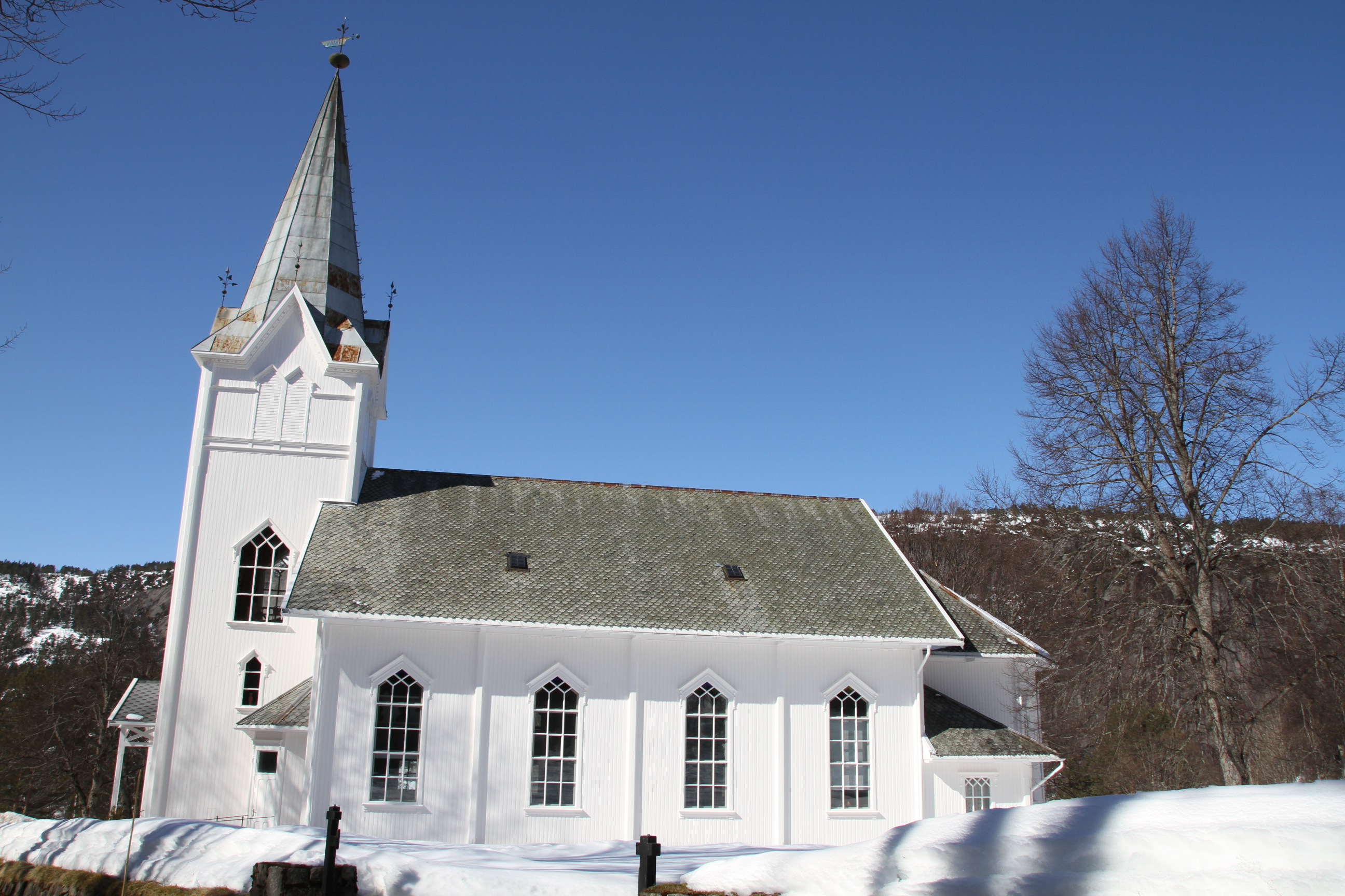 Åmli Kirke, the main (lutheran) church of Åmli settlement, Aust-Agder (Norway).